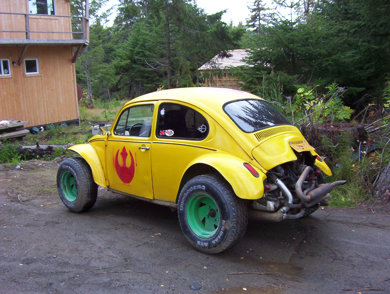 yellow and green baja VW beetle with red rebel alliance logo